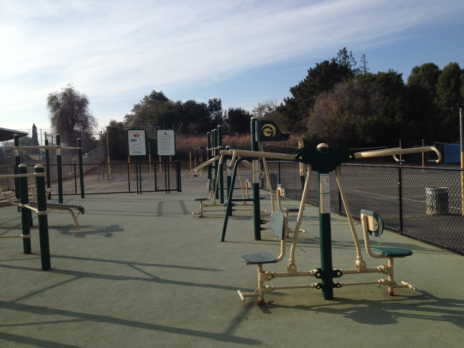 Peterson Middle School's Fitness Center at midday.